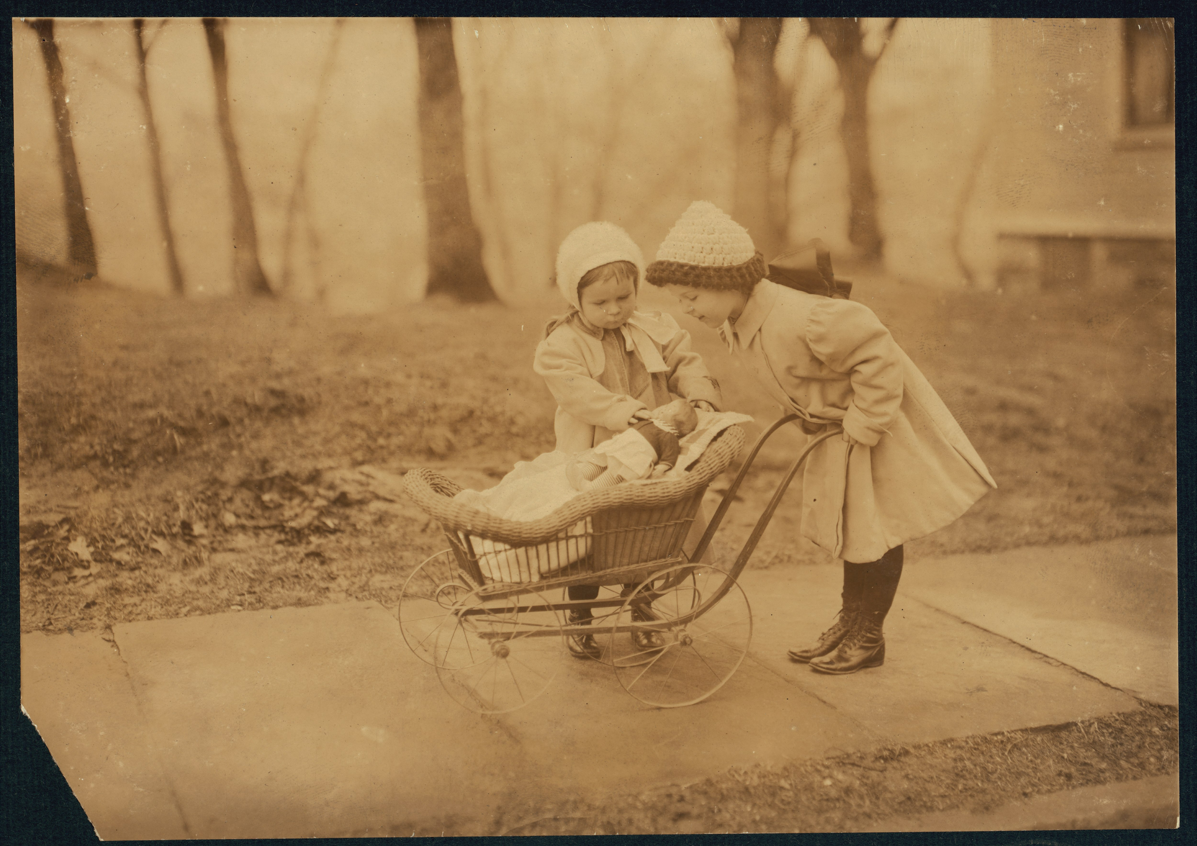 Title: Children playing with Campbell kid dolls. Abstract: Photographs from the records of the National Child Labor Committee (U.S.) Physical description: 1 photographic print. Notes: Girls.; Play (Recreation).; Dolls.